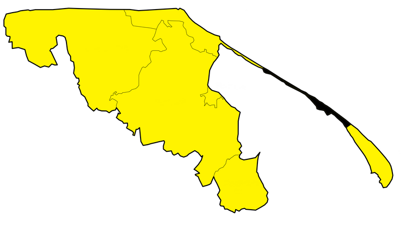 administrative division of pucki (Puck) poviatship - gminas - Jastarnia gmina Author: Krzysztof Created with Inkscape